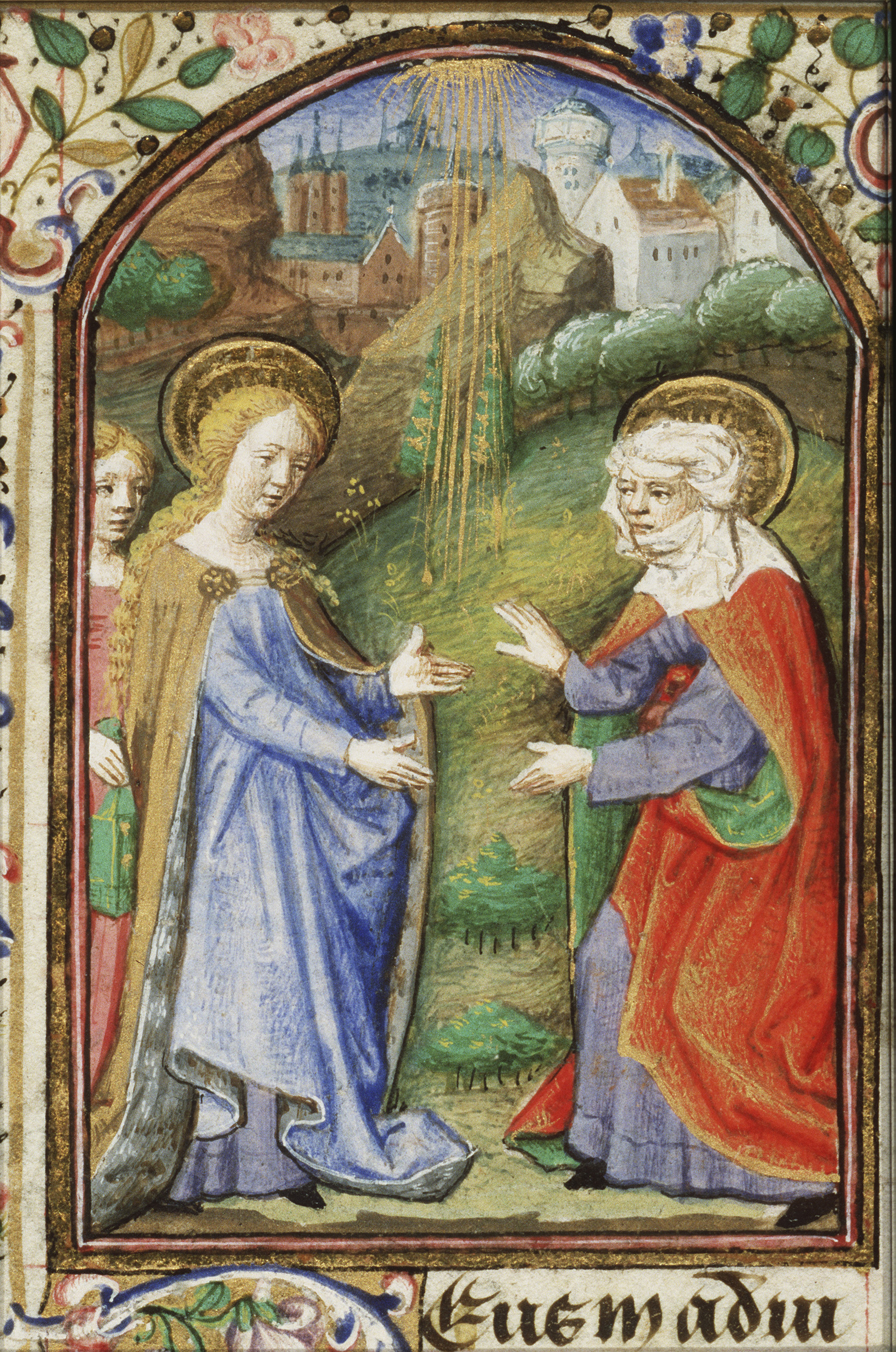 The Visitation - Mary, accompanied by a maid carrying a book, meets St. Elisabeth - miniature from folio 053r from the Book of Hours of Simon de Varie - KB 74 G37 Topics depicted in this miniature Maid ~ house personnel (42F51) Codex (49L72) Mary saluting elisabeth, who kneels before her (73A624) This miniature is part of folio 053r